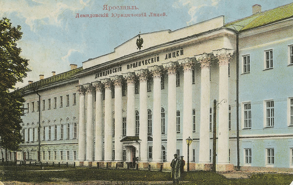 Demidov law liceum building in Yaroslavl, destroyed in 1918.